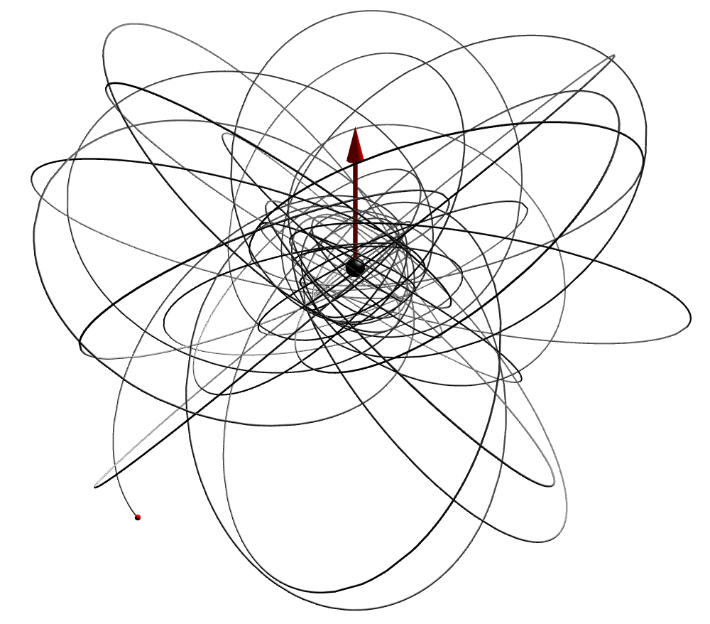 The trajectory of a test mass around a spinning (Kerr) black hole. Orbital parameters: a/M=1, semilatus rectum p = 9.90551 M, eccentricity = 0.7, and maxima; value of cos(Θ) =0.7.